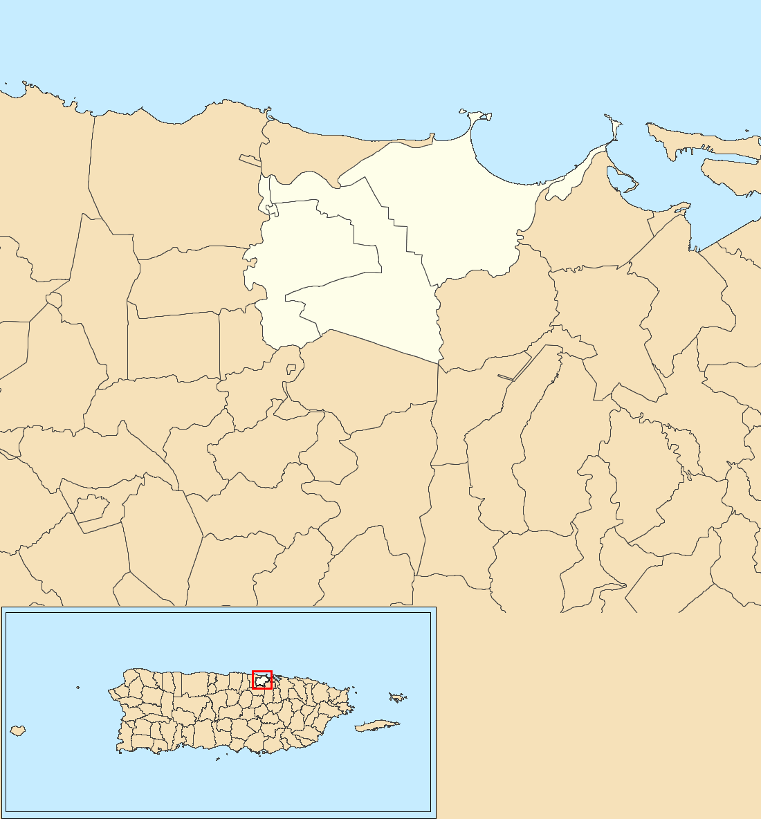 Barrios in the municipality. Map scale is 1:200,000